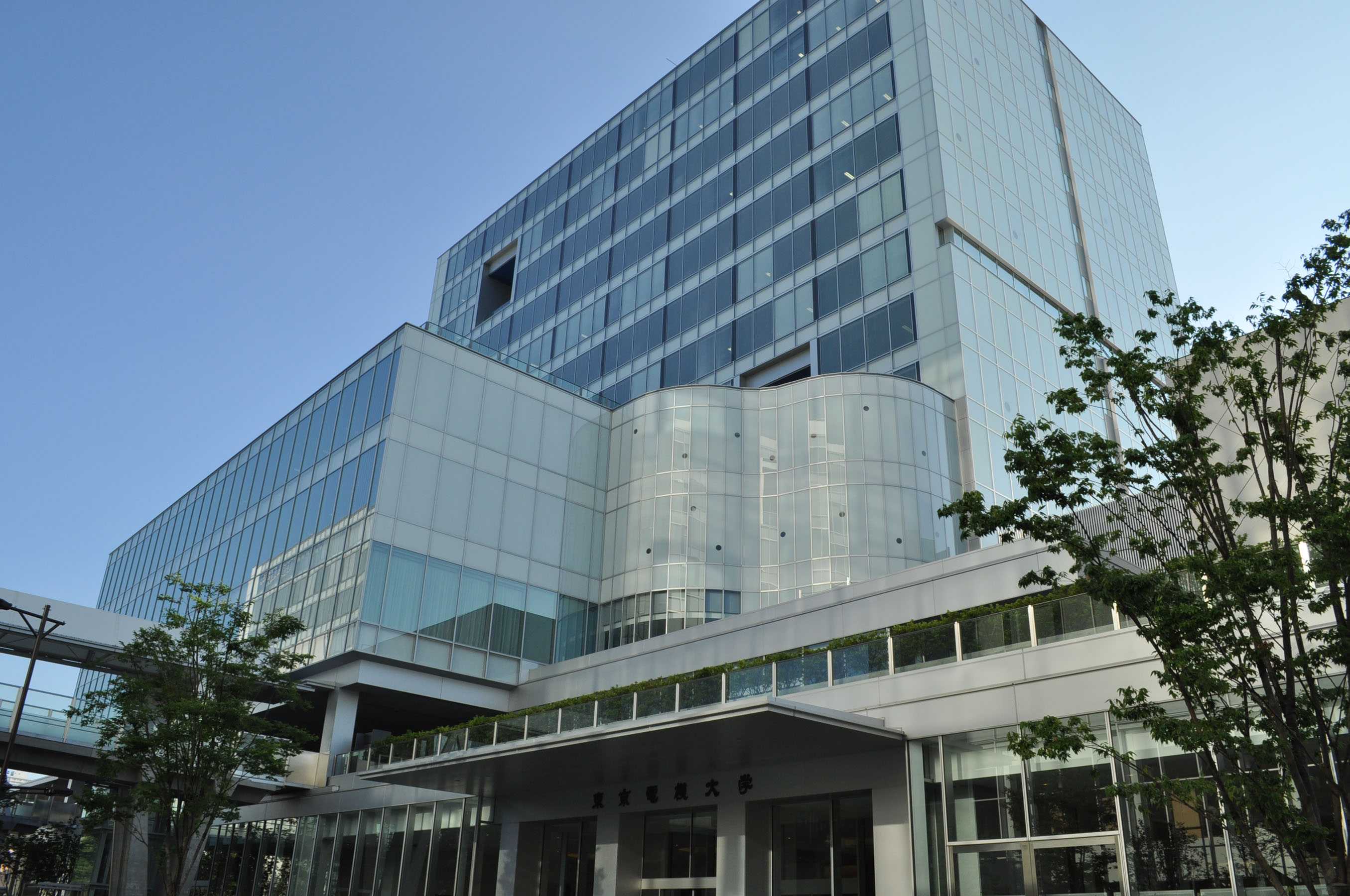 Tokyo Denki University in Kita-senju